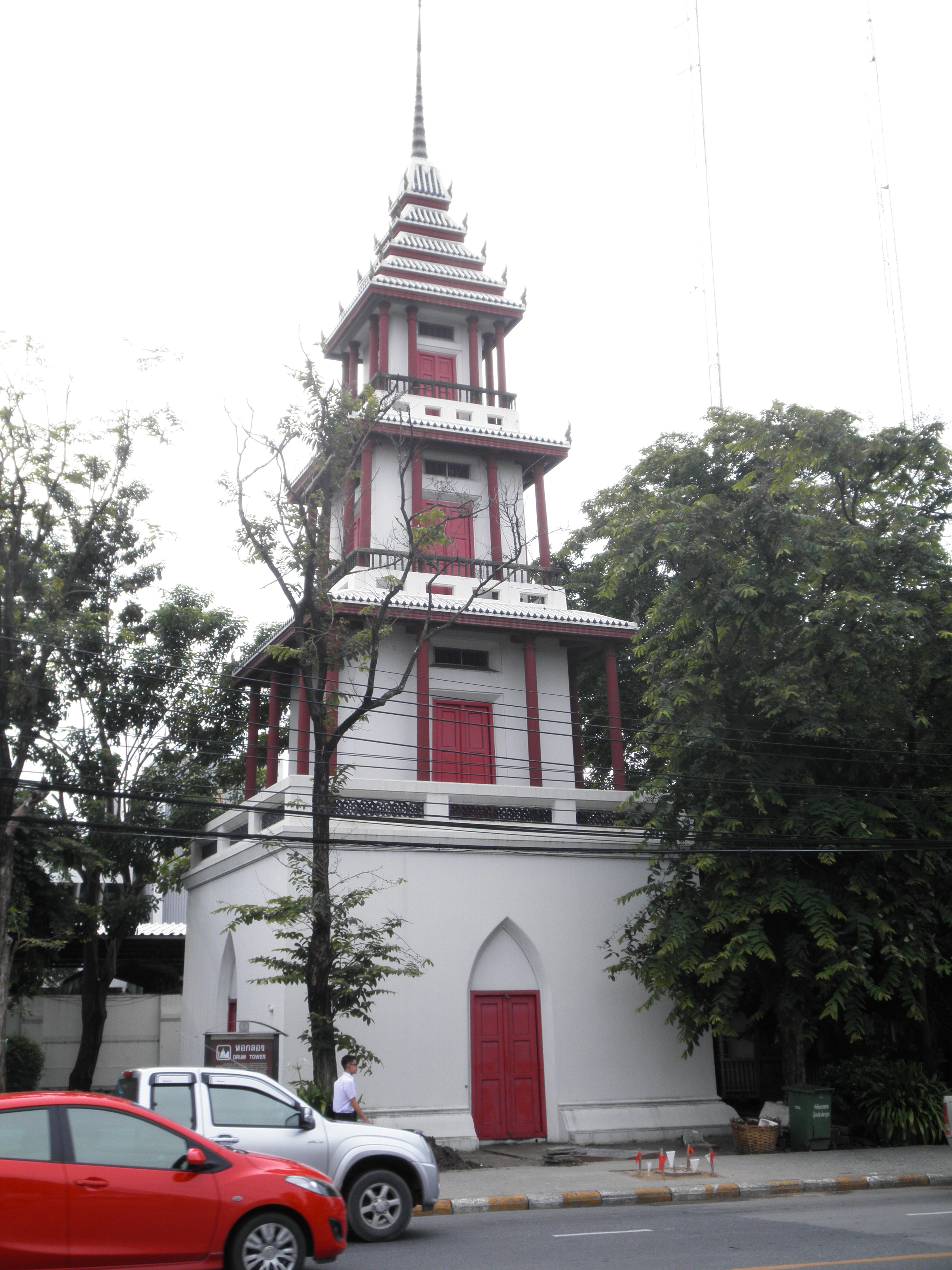 Bell Tower